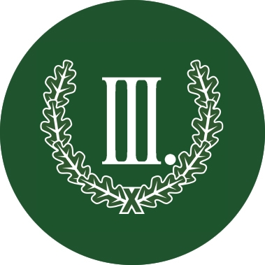 Logo of the German political party "Der dritte Weg" (The Third Path) with oak wreath.